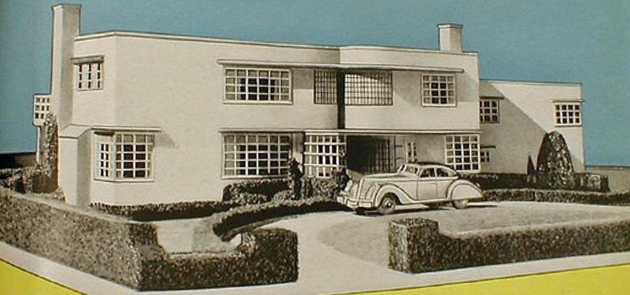 Lloyd H. Buhs Residence Hugh T. Keyes, architect 1936